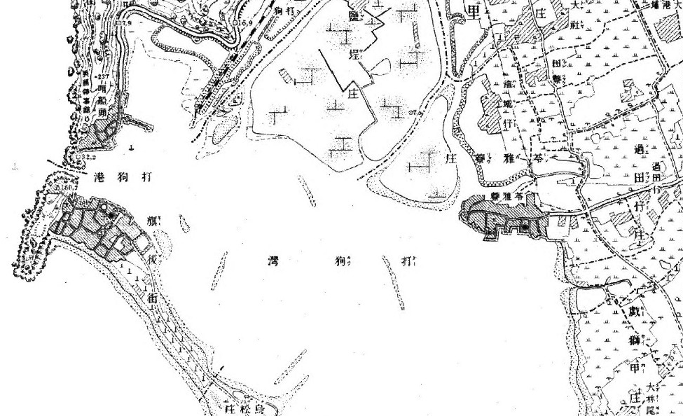 Takao_1904